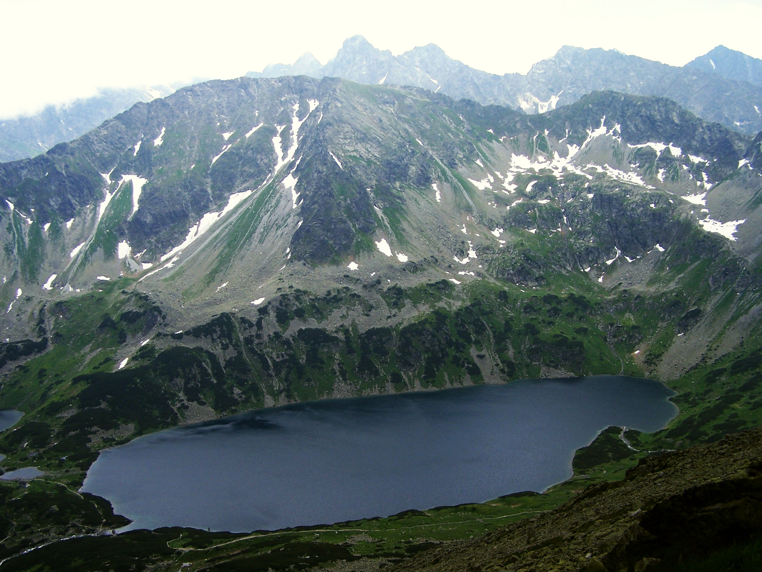 Miedziane (High Tatra Mountains)